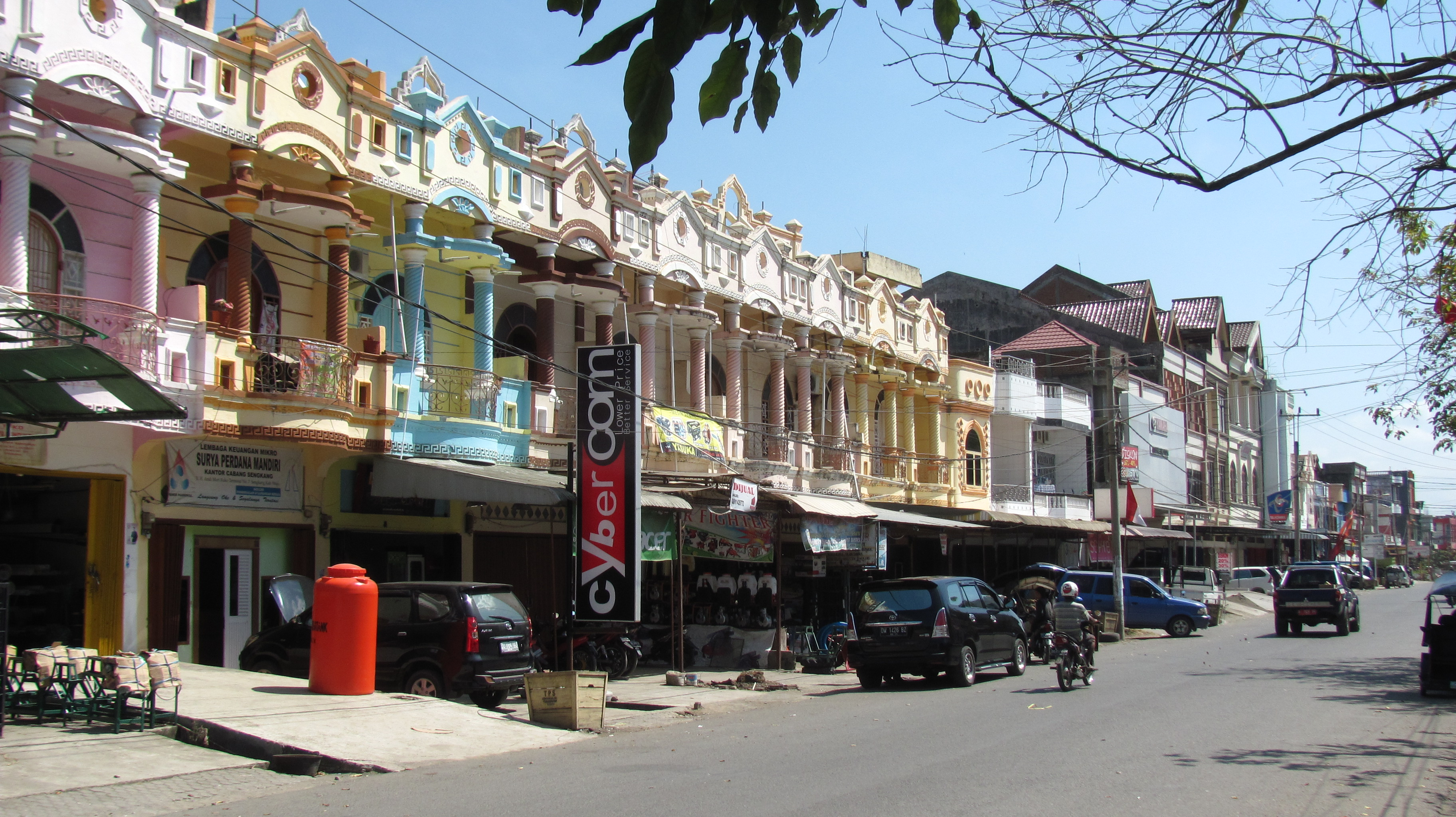 Jalan H. A. Mori, Sengkang, Sulawesi, Indonesia